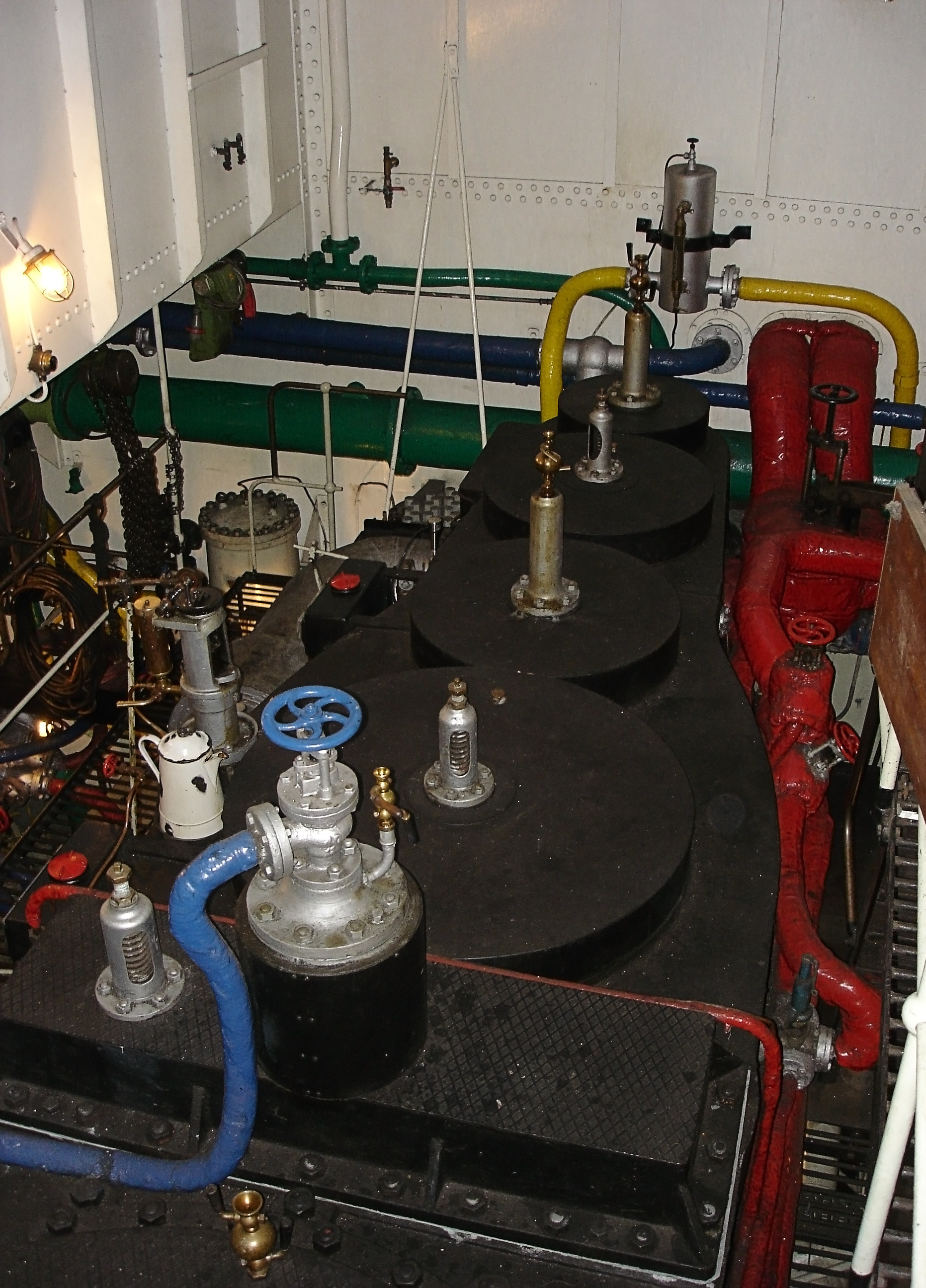 Overview of the triple-expansion engine of the German steam-powered icebreaker Stettin.